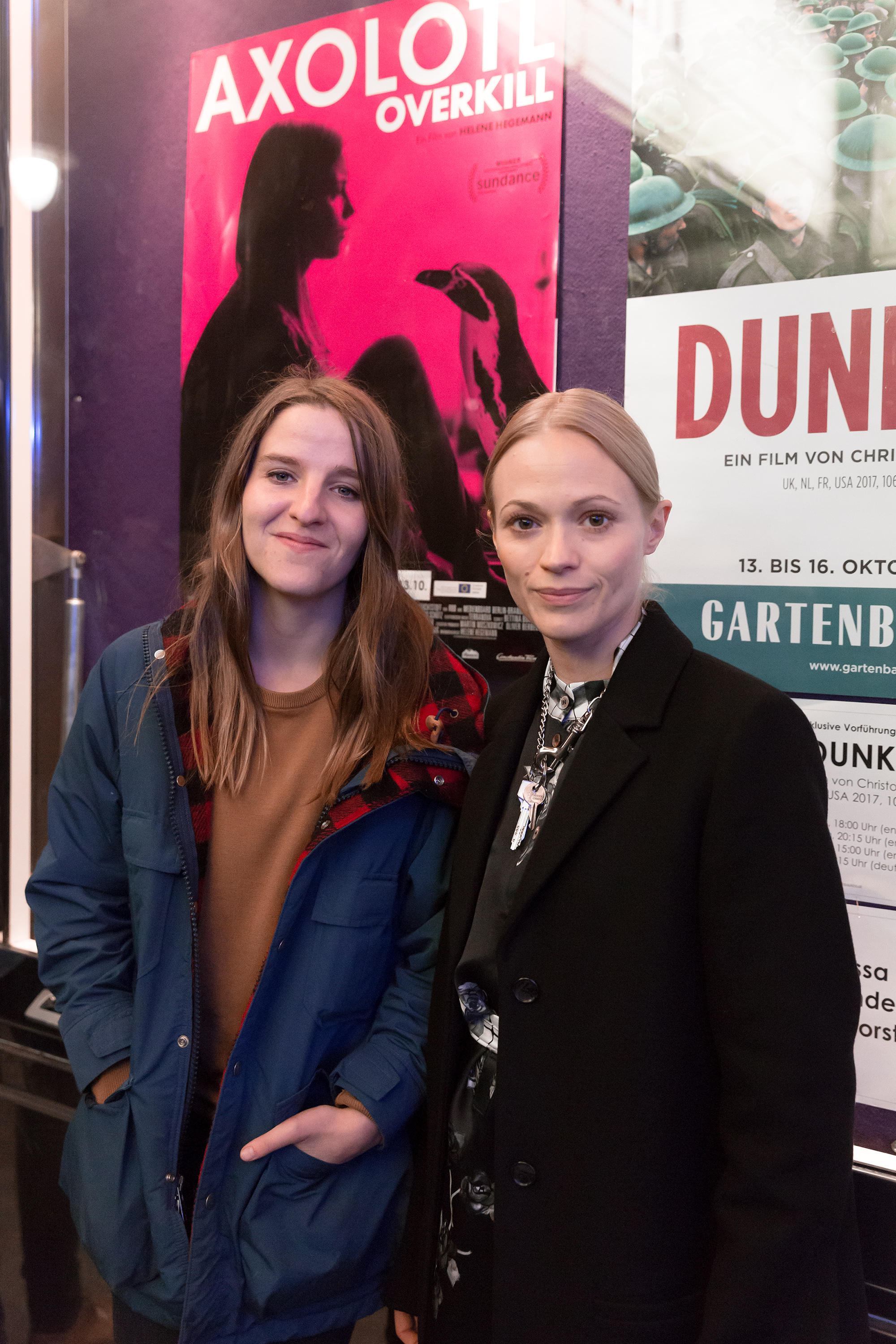 Helene Hegemann and Mavie Hörbiger at the Austrian premiere of Axolotl Overkill at Gartenbaukino in Vienna.